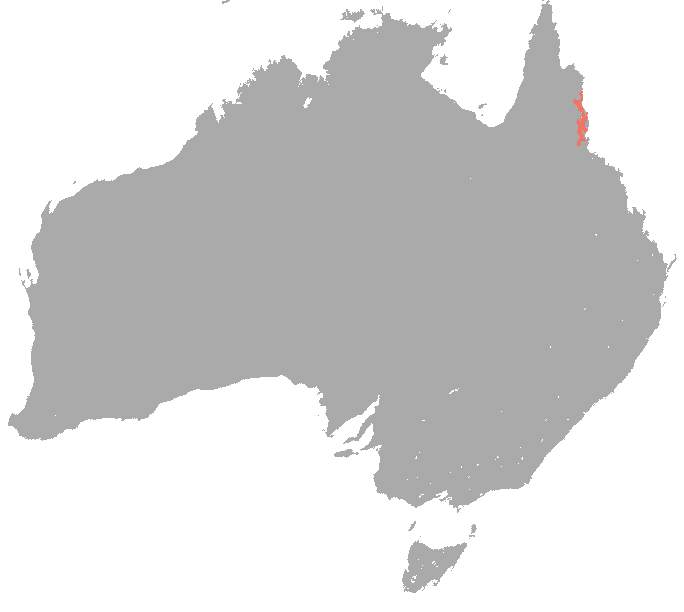 Musky Rat Kangaroo (Hypsiprymnodon moschatus) range